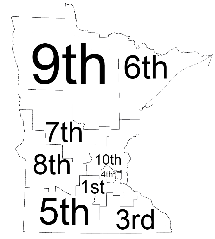 Map of Minnesota judicial districts